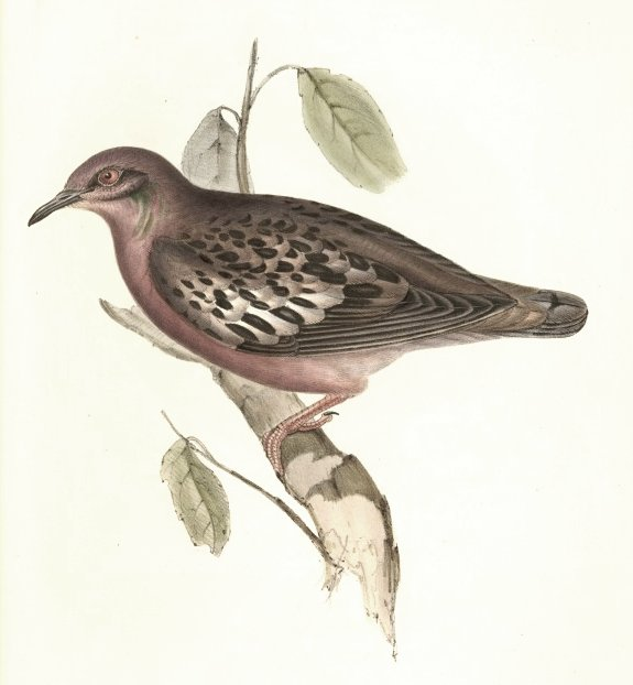 (Zenaida galapagoensis, syn: Nesopelia galapagoensis) (Original description: Zenaida galapagoensis explanation for modern name here)